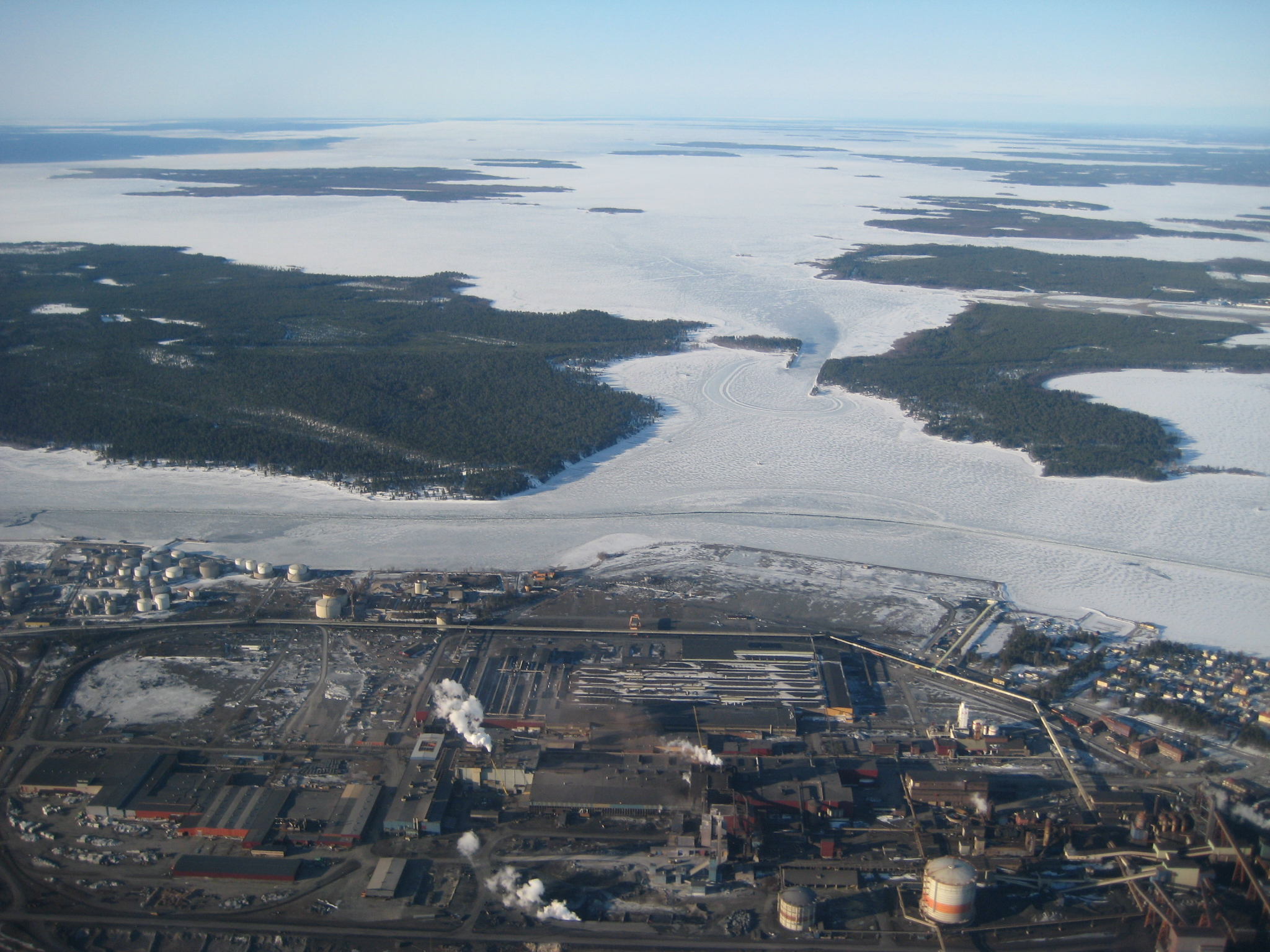 Industrial district of Luleå facing the Gulf of Bothnia (Norrbotten County, Sweden)